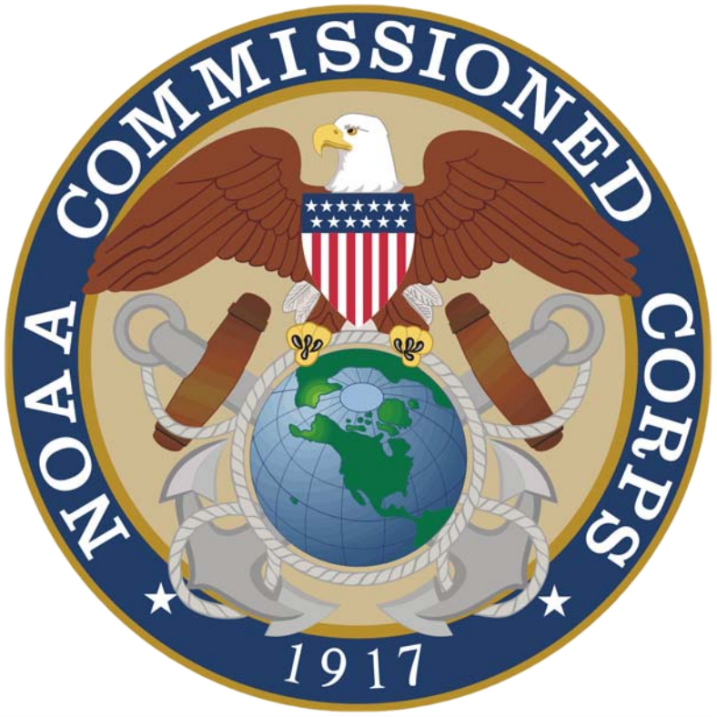 Logo of the National Oceanic and Atmospheric Administration Commissioned Corps.